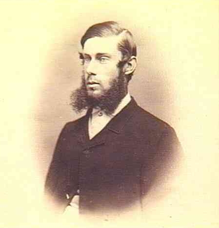 Joseph Sylvester O'Halloran (1842–1920). ca.1875. Secretary of the Royal Commonwealth Society, 1884 to 1909.